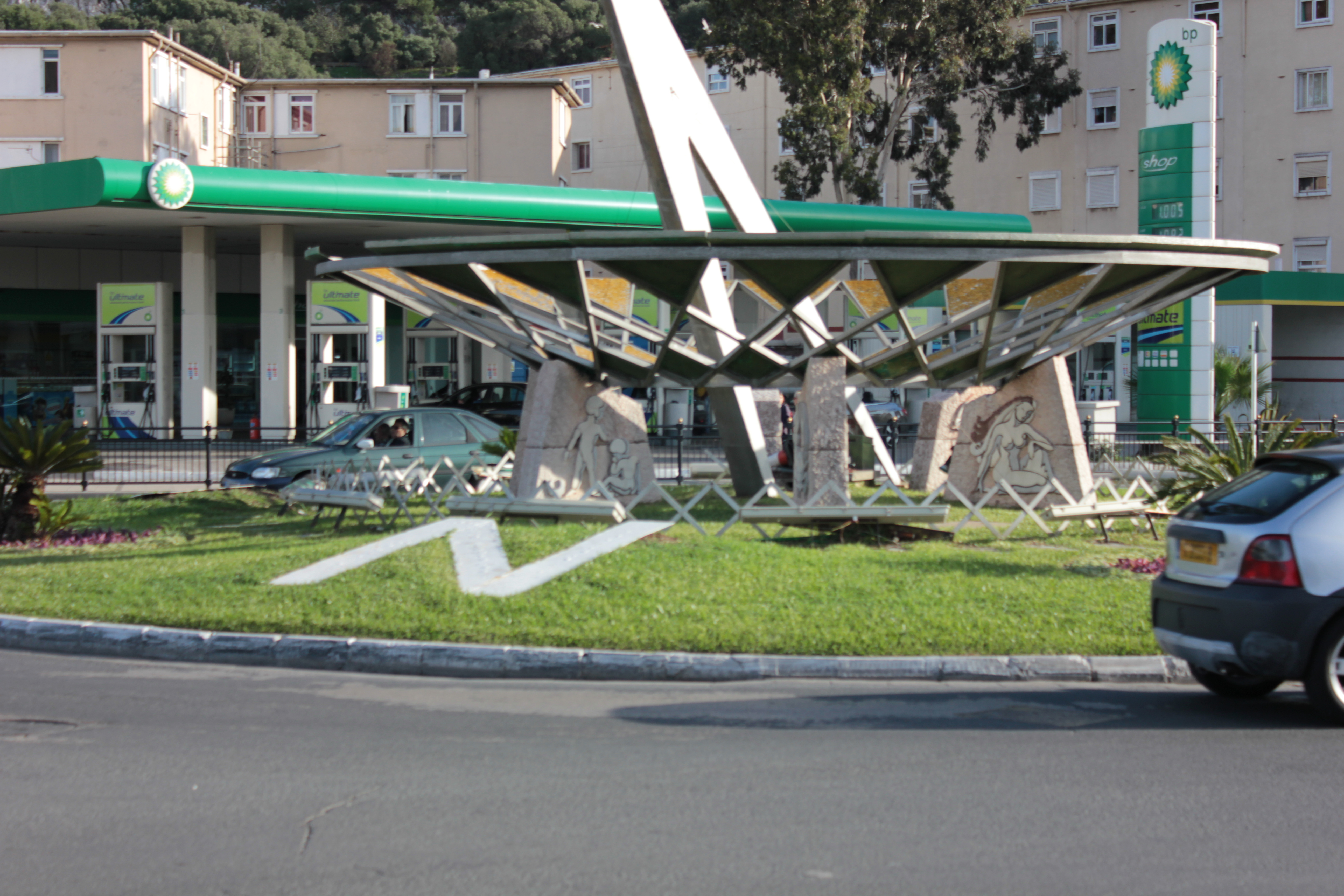 Roundabout on Winston Churchill Avenue, Gibraltar, with a compass monument.